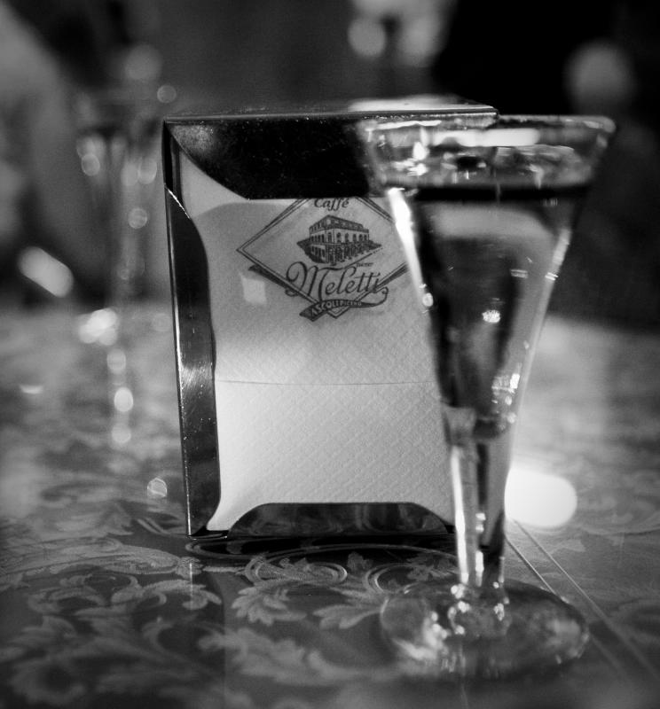 Ascoli Piceno is where they make Meletti (a type of sambuca)